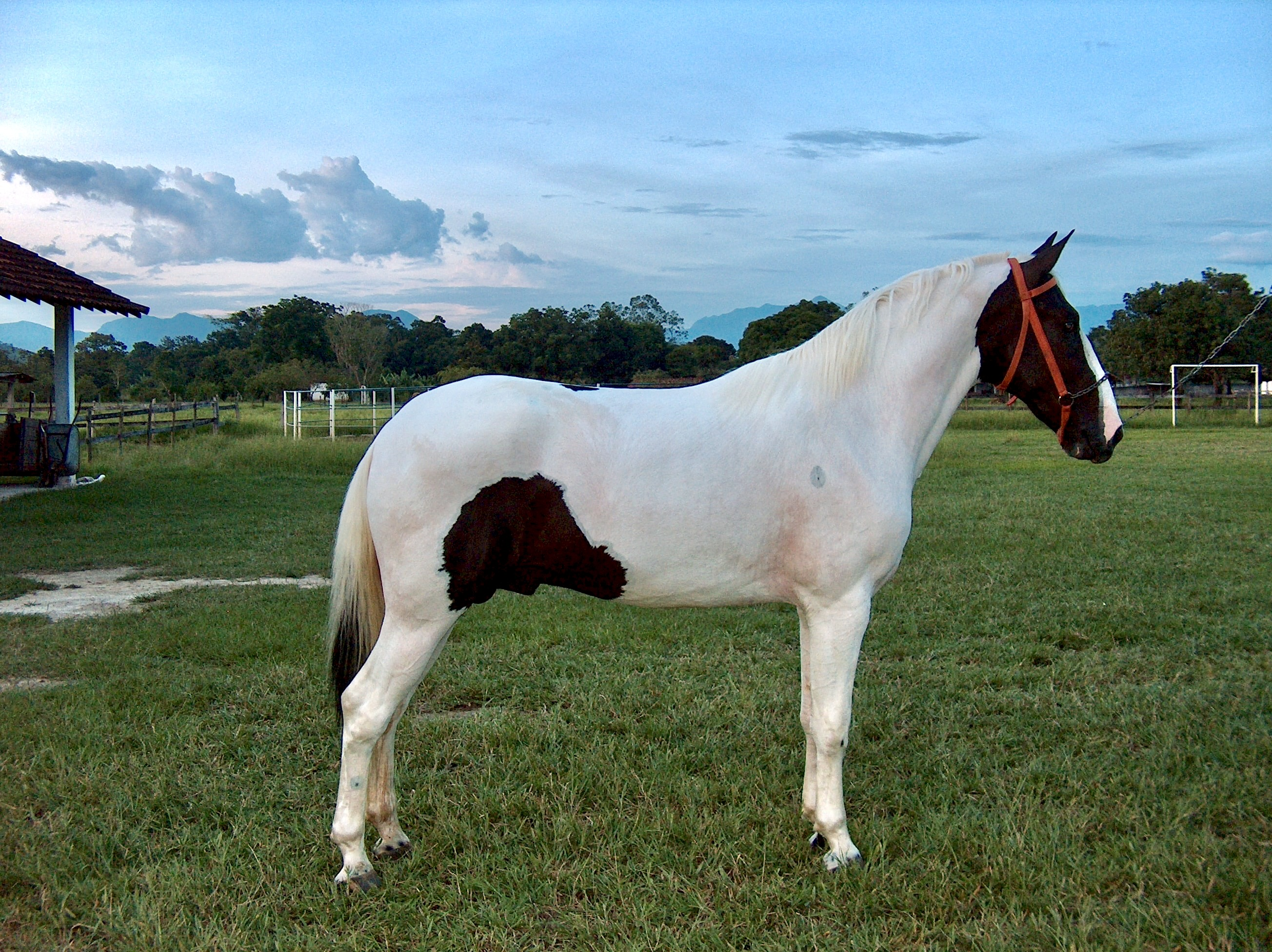 Pampa or paint Campolina, male stallion 2 years